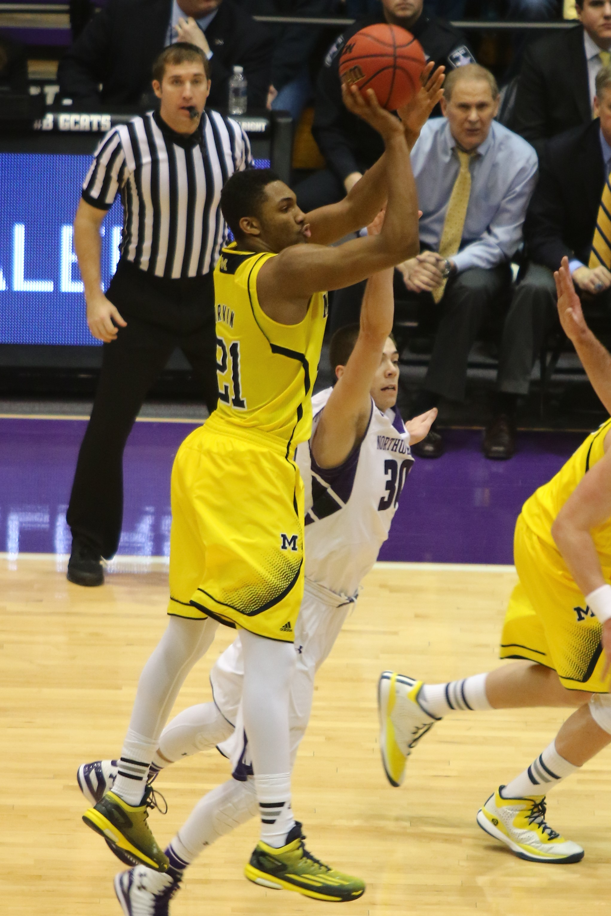 Zak Irvin for the w:2014–15 Michigan Wolverines men's basketball team at Welsh-Ryan Arena